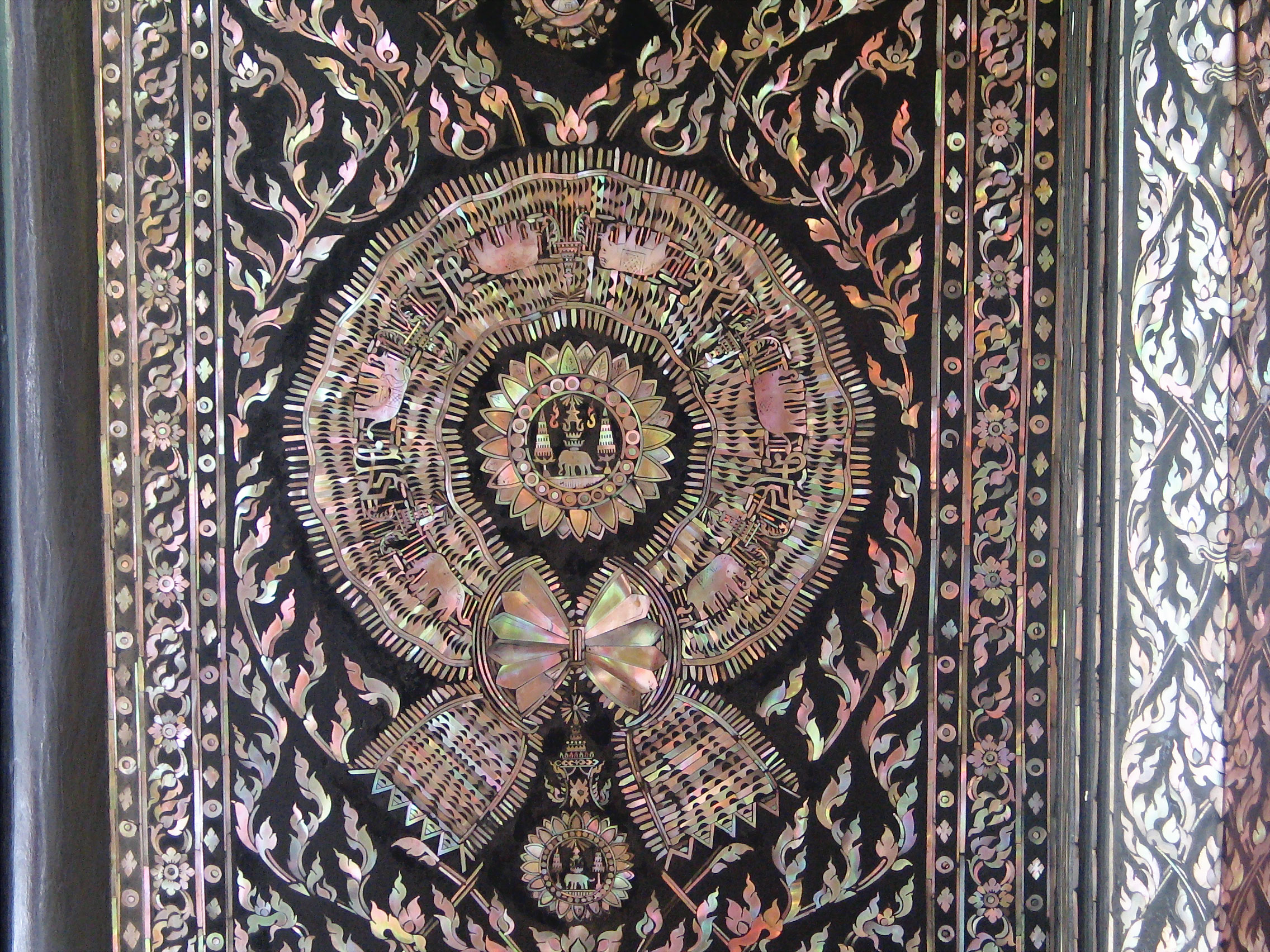 Mother-of-pearl inlay, entrance door at Ubosot of Wat Rajabophit, Phra Nakhon district, Bangkok Thailand